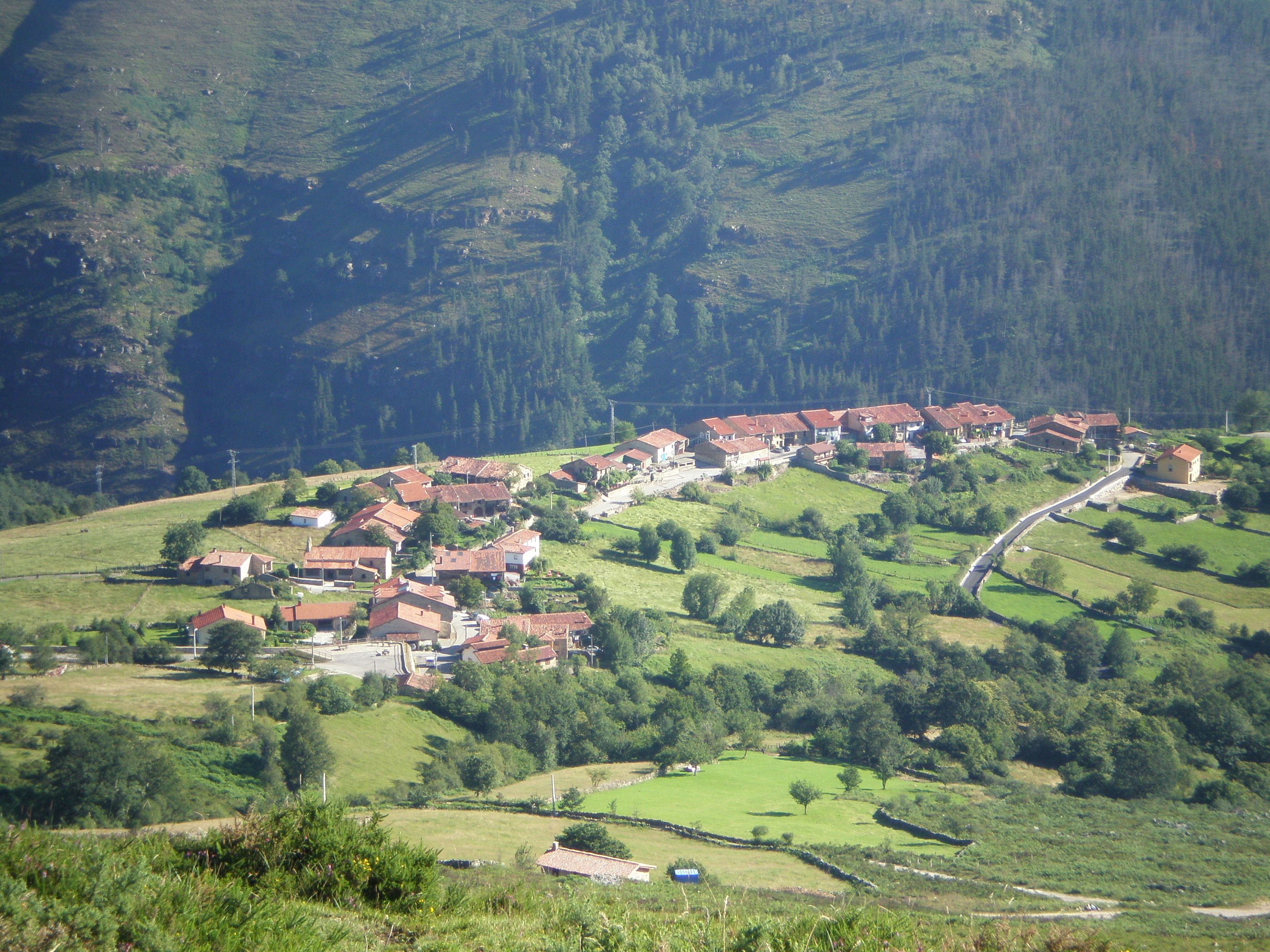 Village of Los Tojos, capital of the homonymous municipality, in Saja valley, Cantabria, Spain.